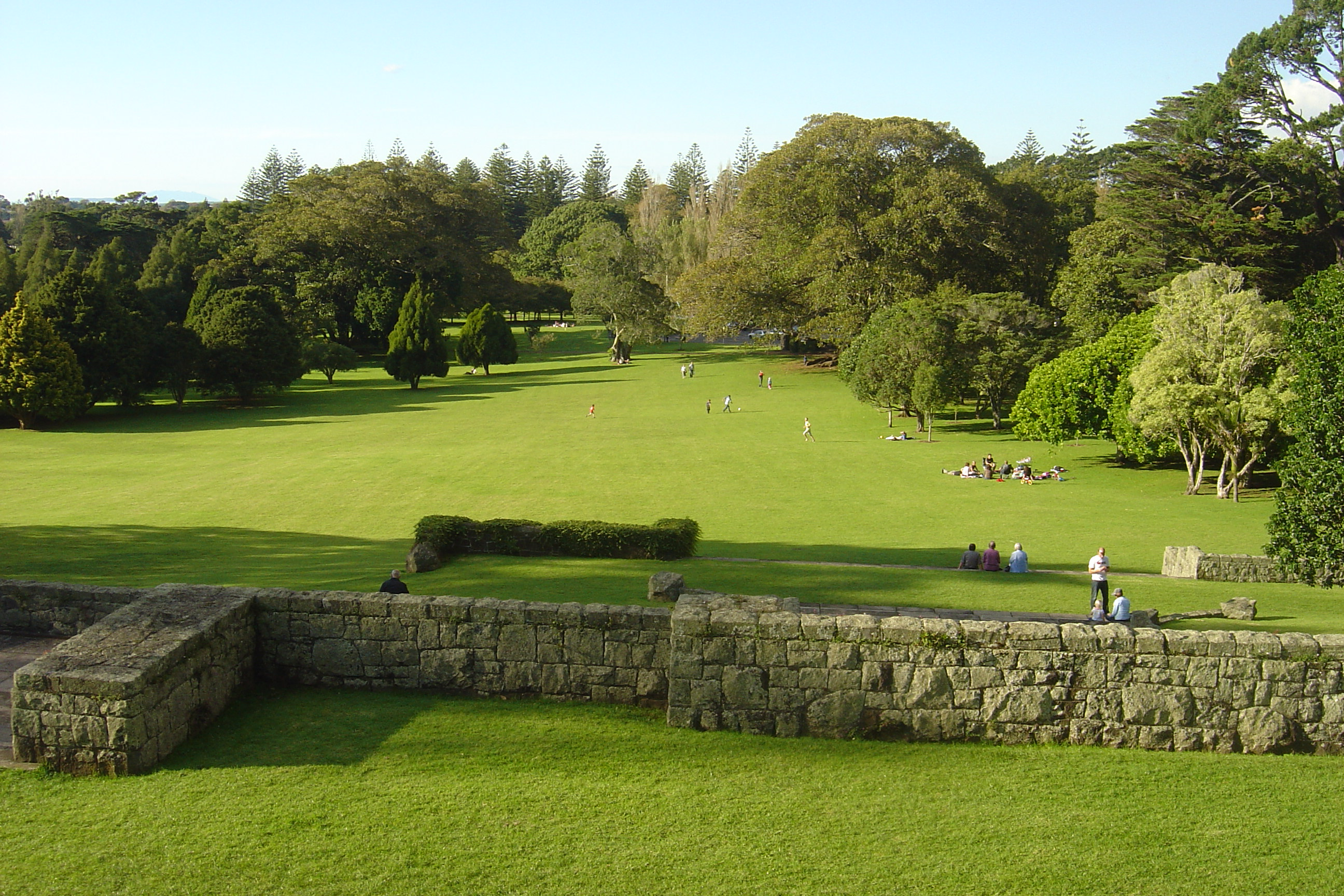 Looking out over Cornwall Park from the base of One Tree Hill